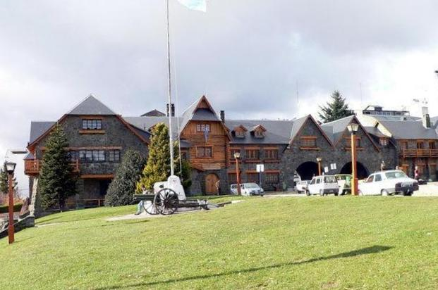 Patagonian Museum "Francisco Pascasio Moreno", in the argentinian city of San Carlos de Bariloche. Edited version of this file